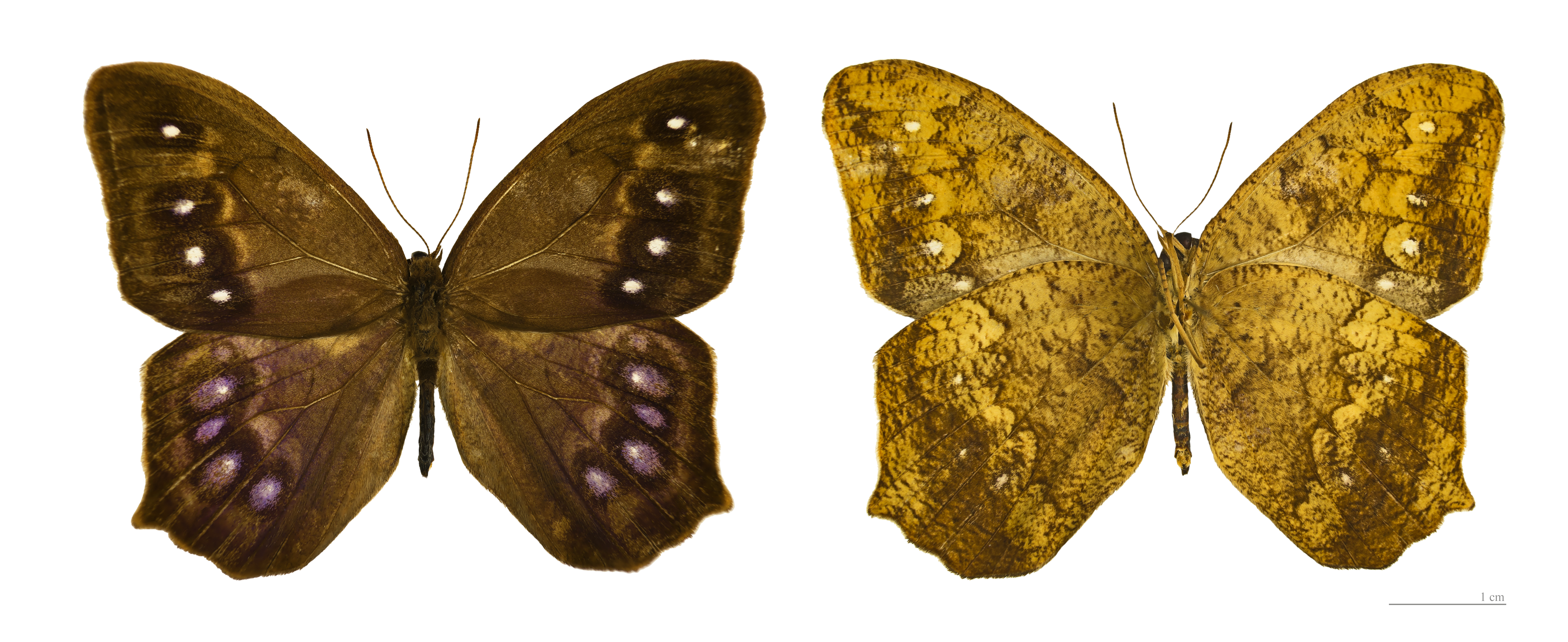 Antirrhea ornata - Two views of same specimen Two views of same specimen